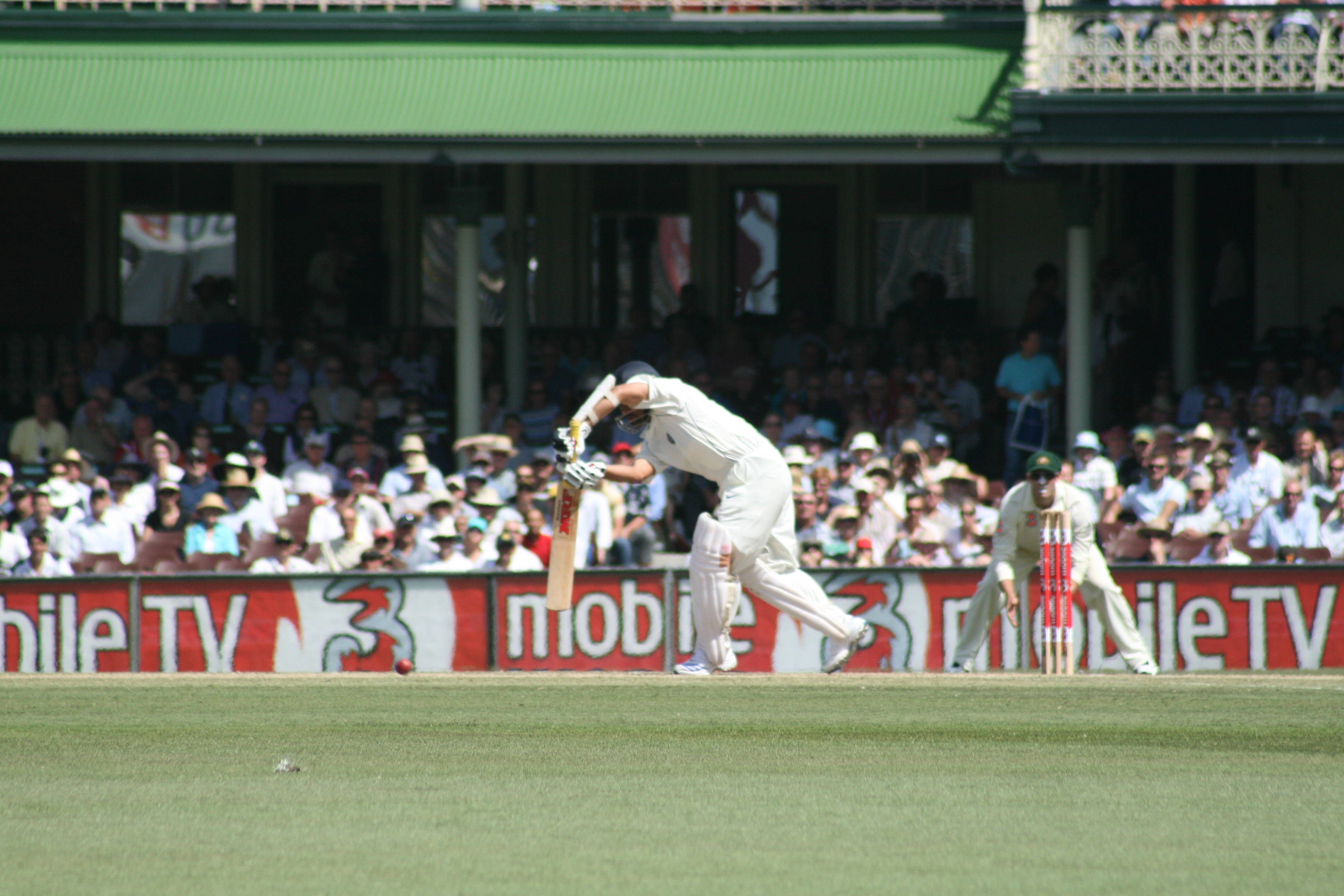 Indian Cricketer (sachin I think) plays a stroke